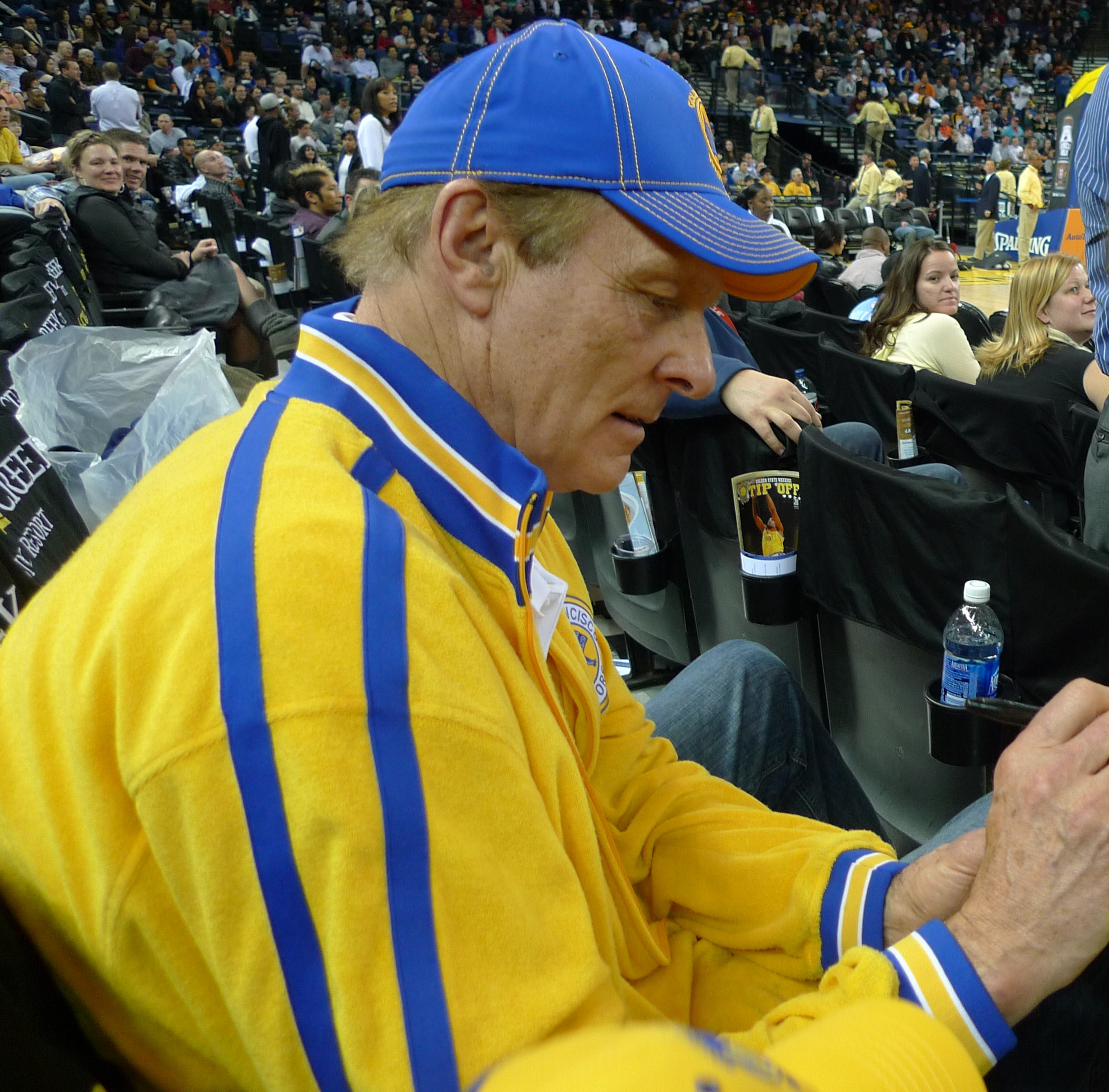 Rick Barry signs an autograph in 2011.